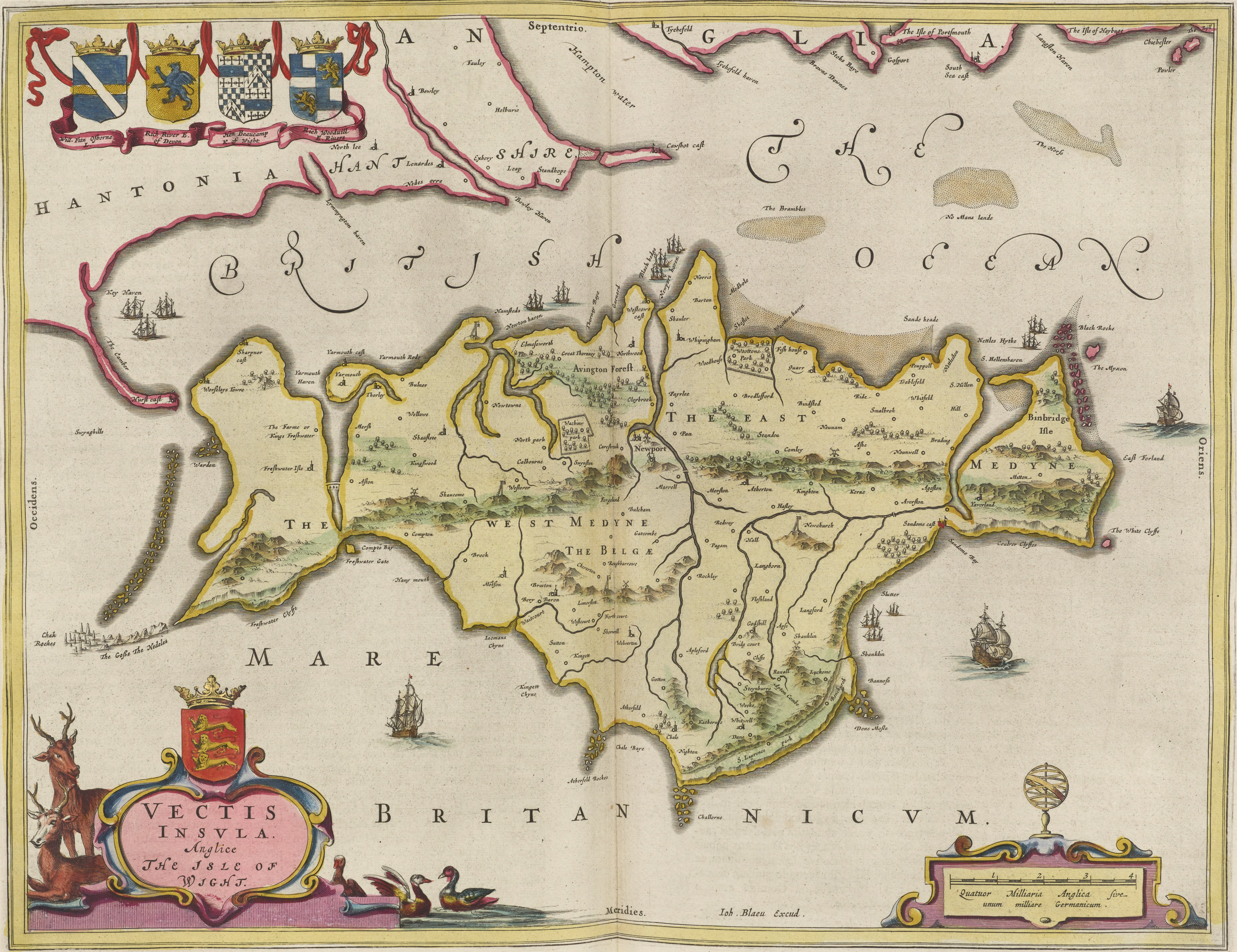 historic map of the Isle of Wight (Vectis Insvla), close off the south coast of England